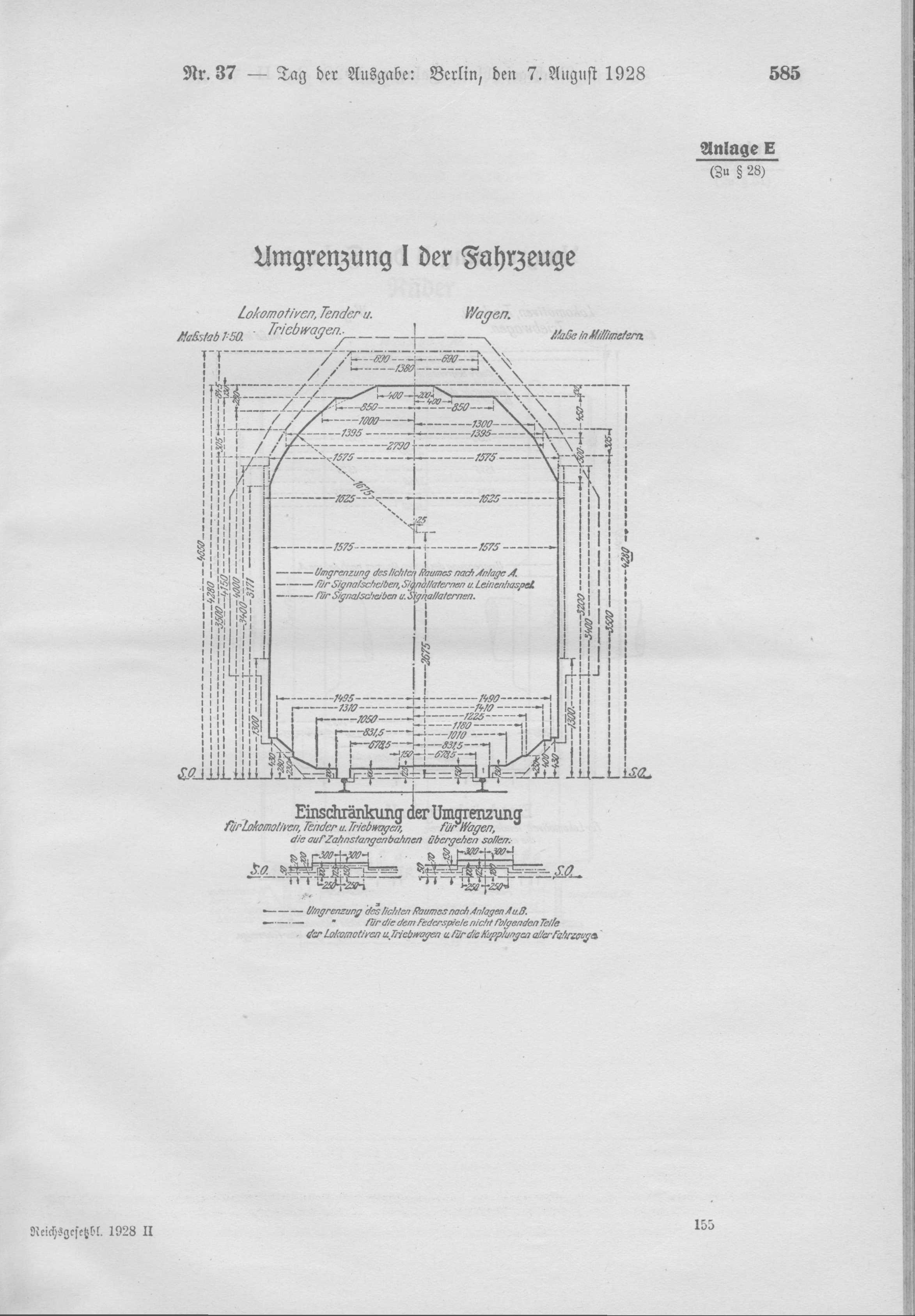 Scan from the Imperial Law Gazette of Germany, 1928, part 2